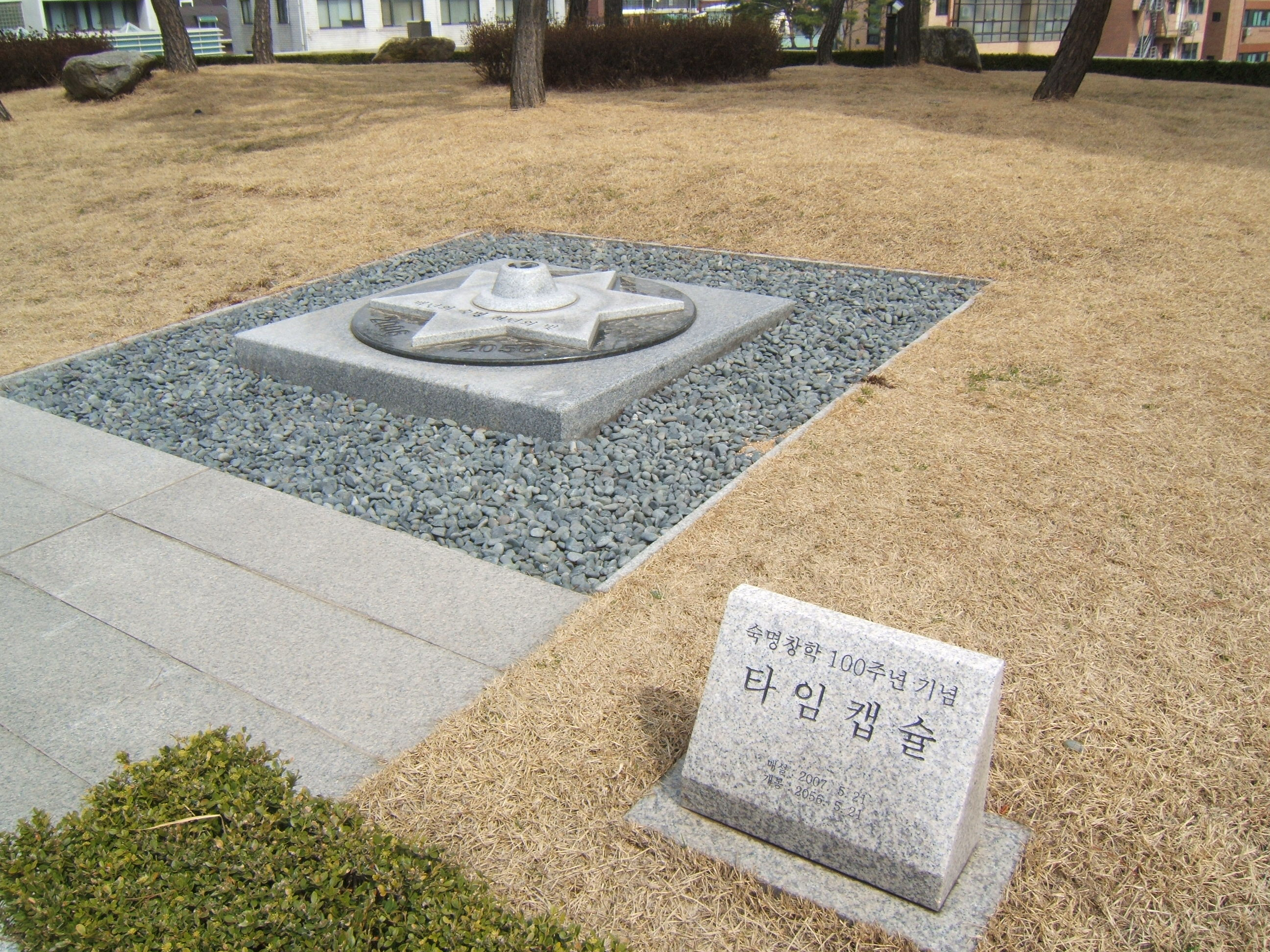 A time capsule for centennial anniversary of Sookmyung Women's University